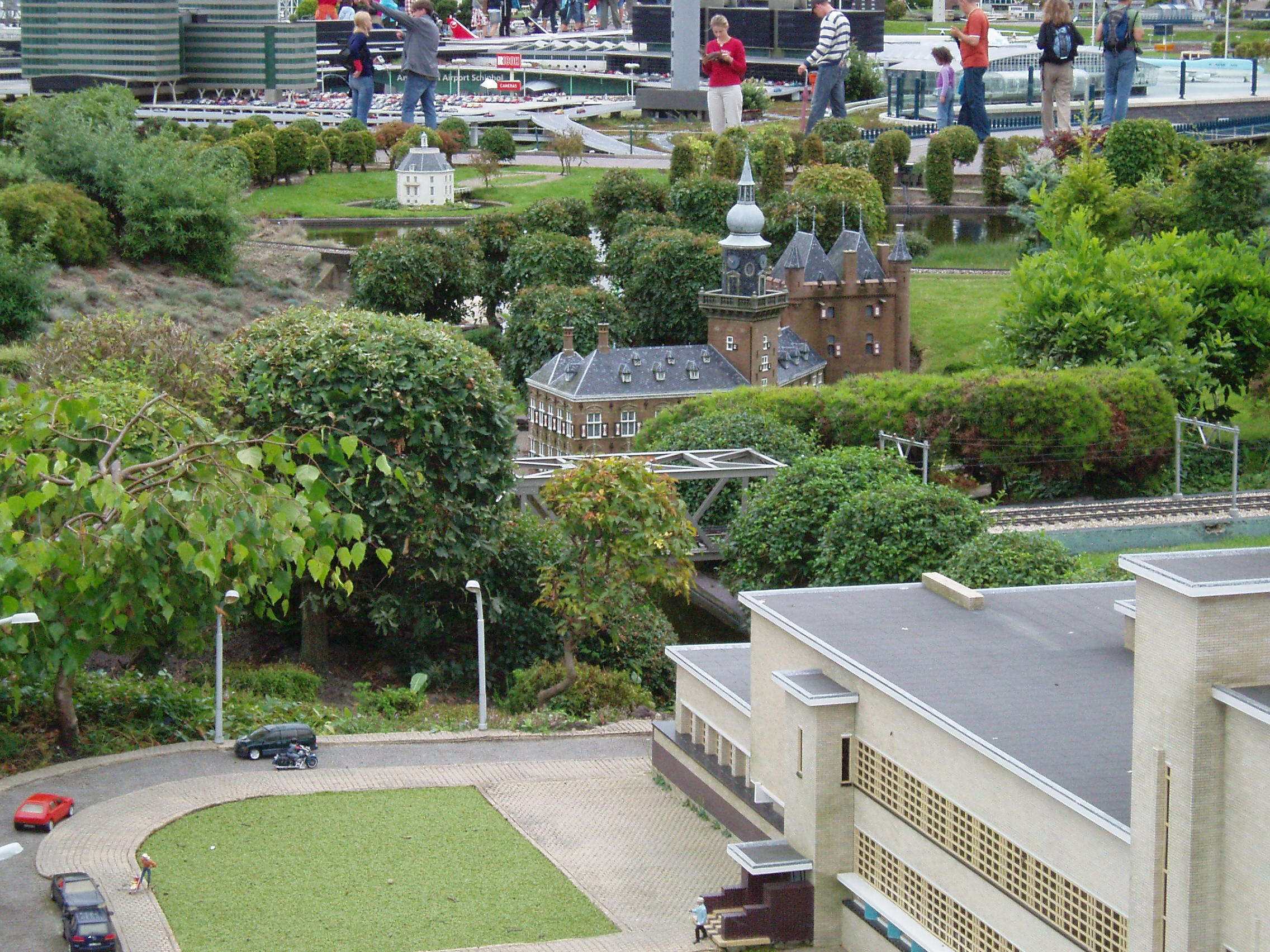 Madurodam in the Hague in the Netherlands